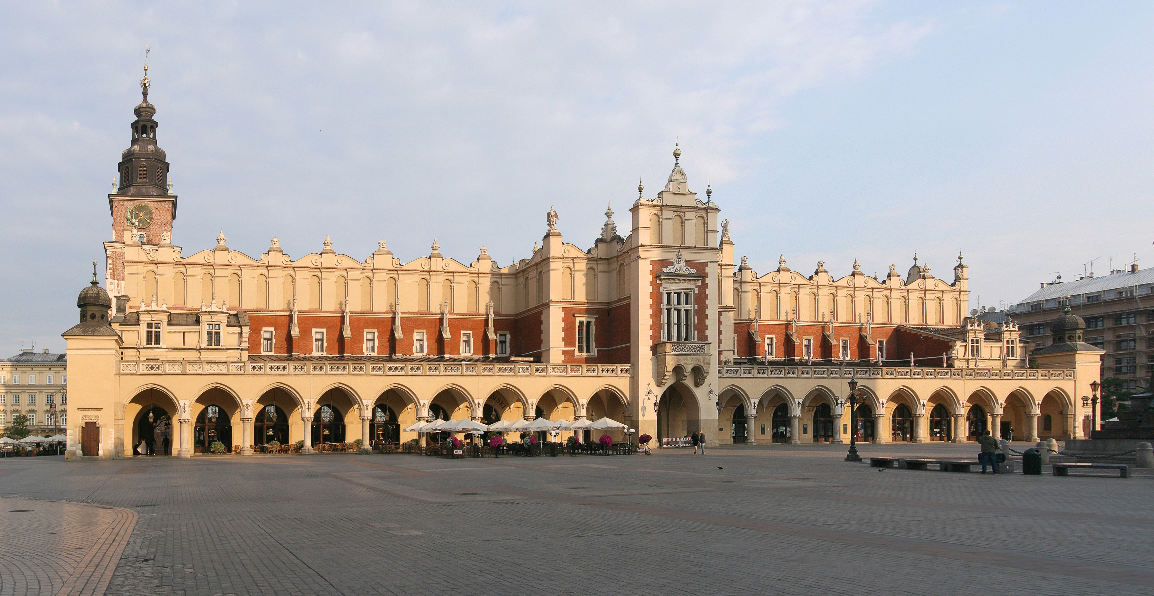 East Side of Sukiennice, Krakow